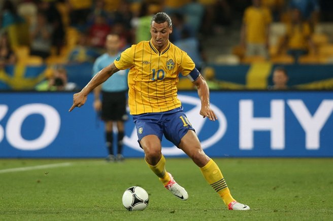 Zlatan Ibrahimović at the Euro 2012 match against France